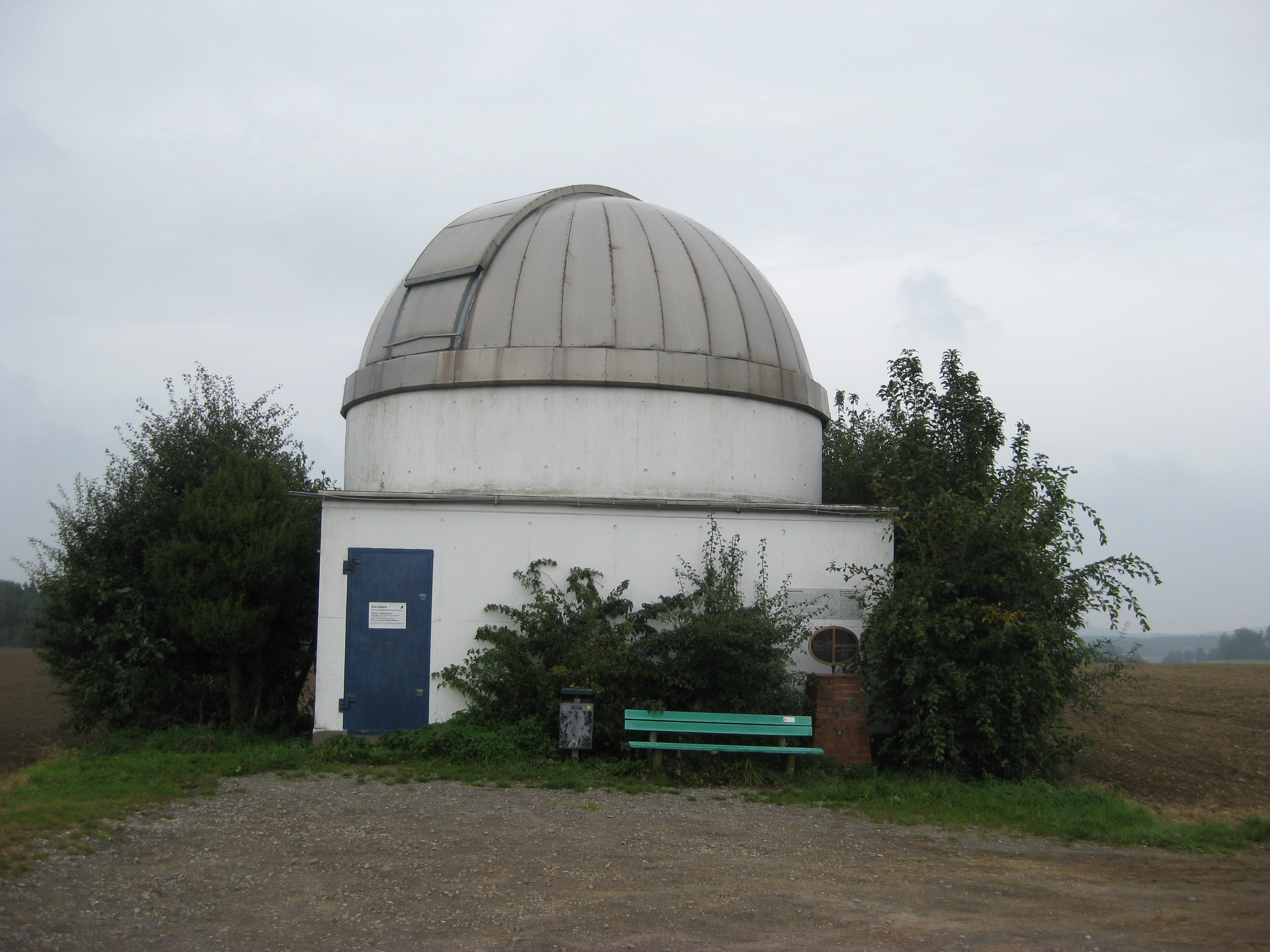 Observatory in Melle-Oberholsten